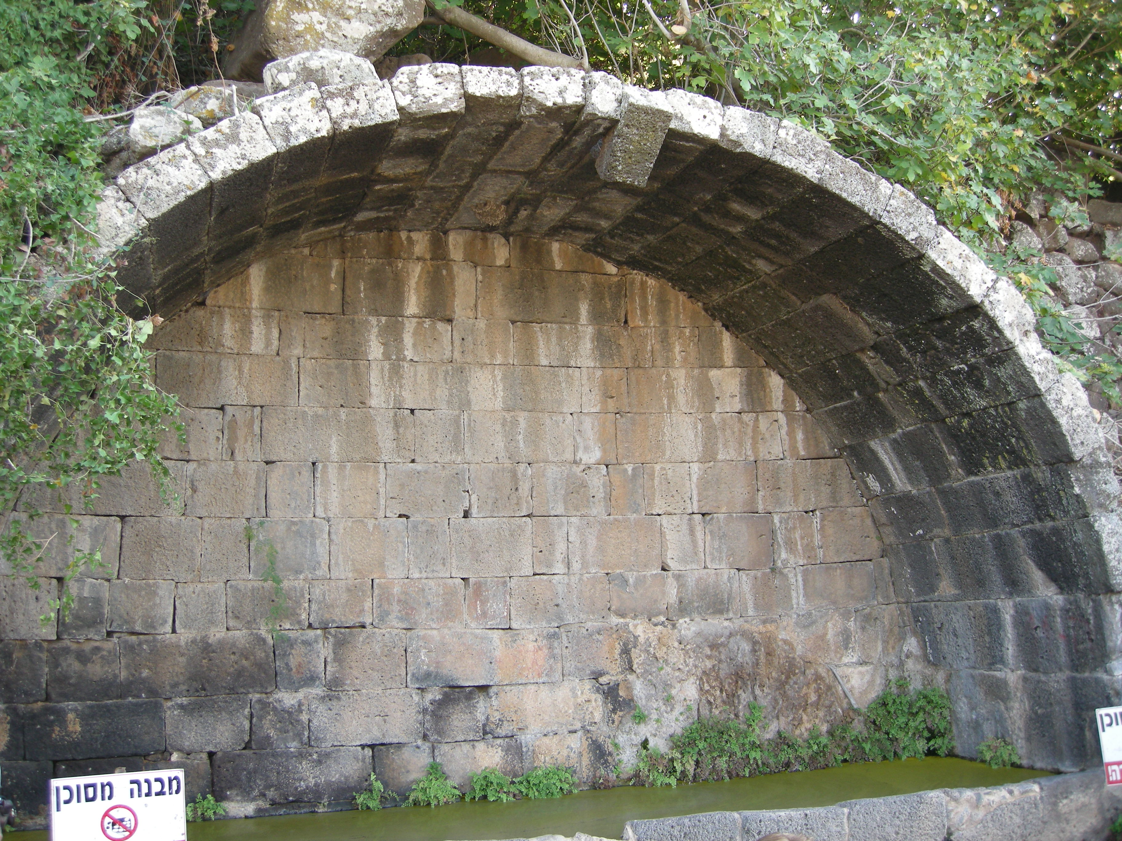 Um el Kantar